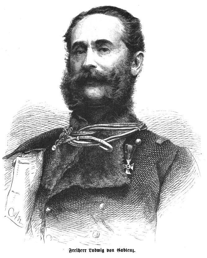 caption: "Freiherr Ludwig von Gablenz."